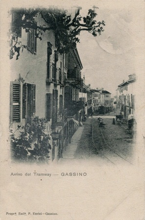 Gassino, arrival of tramway